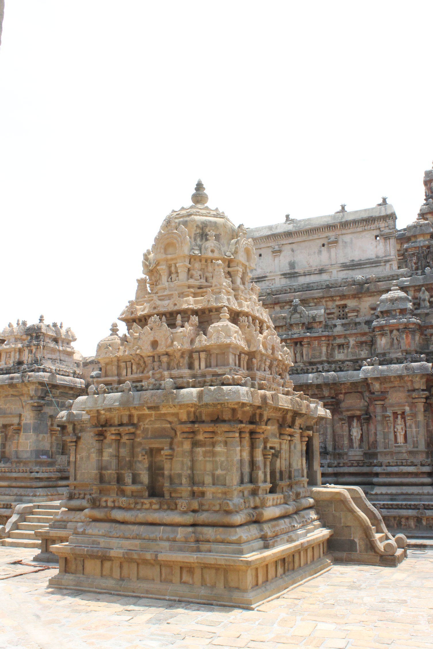 "Architecture of World Heritage Monument Airavatesvara Temple". Location: Chatram, Darasuram, near Kumbakonam, Thanjavur District, Tamil Nadu, India.